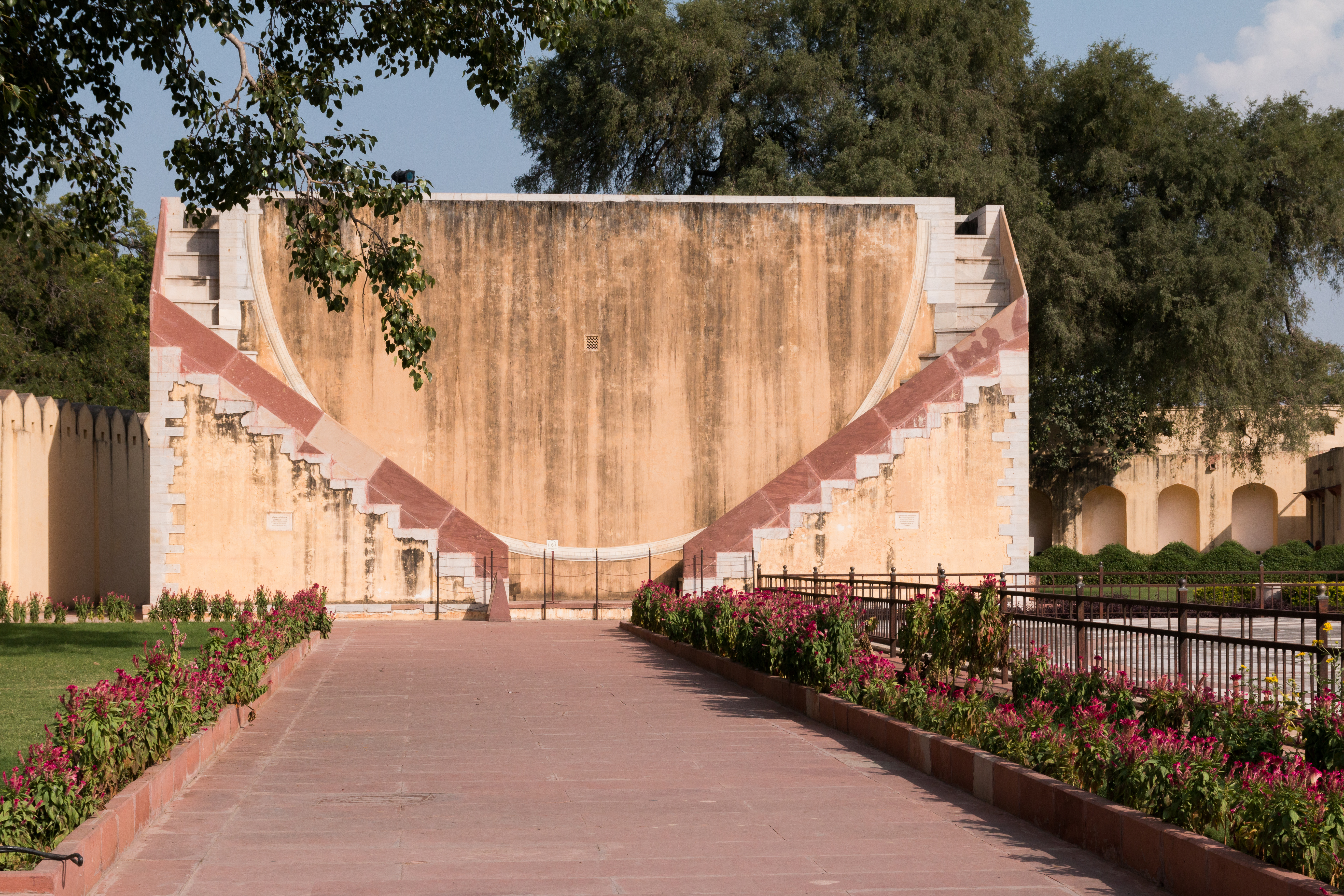 Dakshino Bhitti Yantra, dual sundial measuring the position of a celestial body in relation to the meridia.